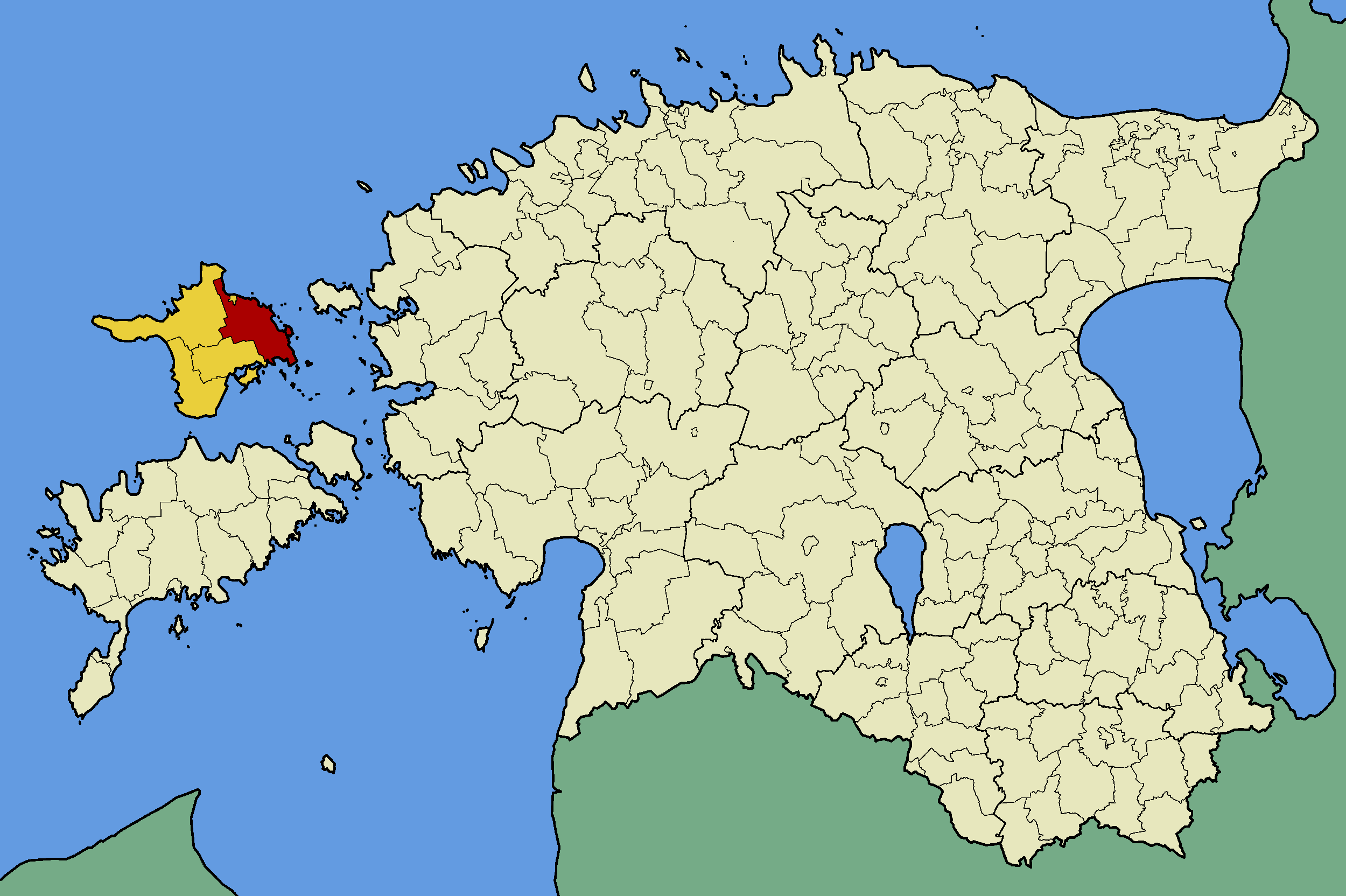 Map of Estonia with borders of municipalities (parishes). Hiiu county and Pühalepa municipality emphasized.